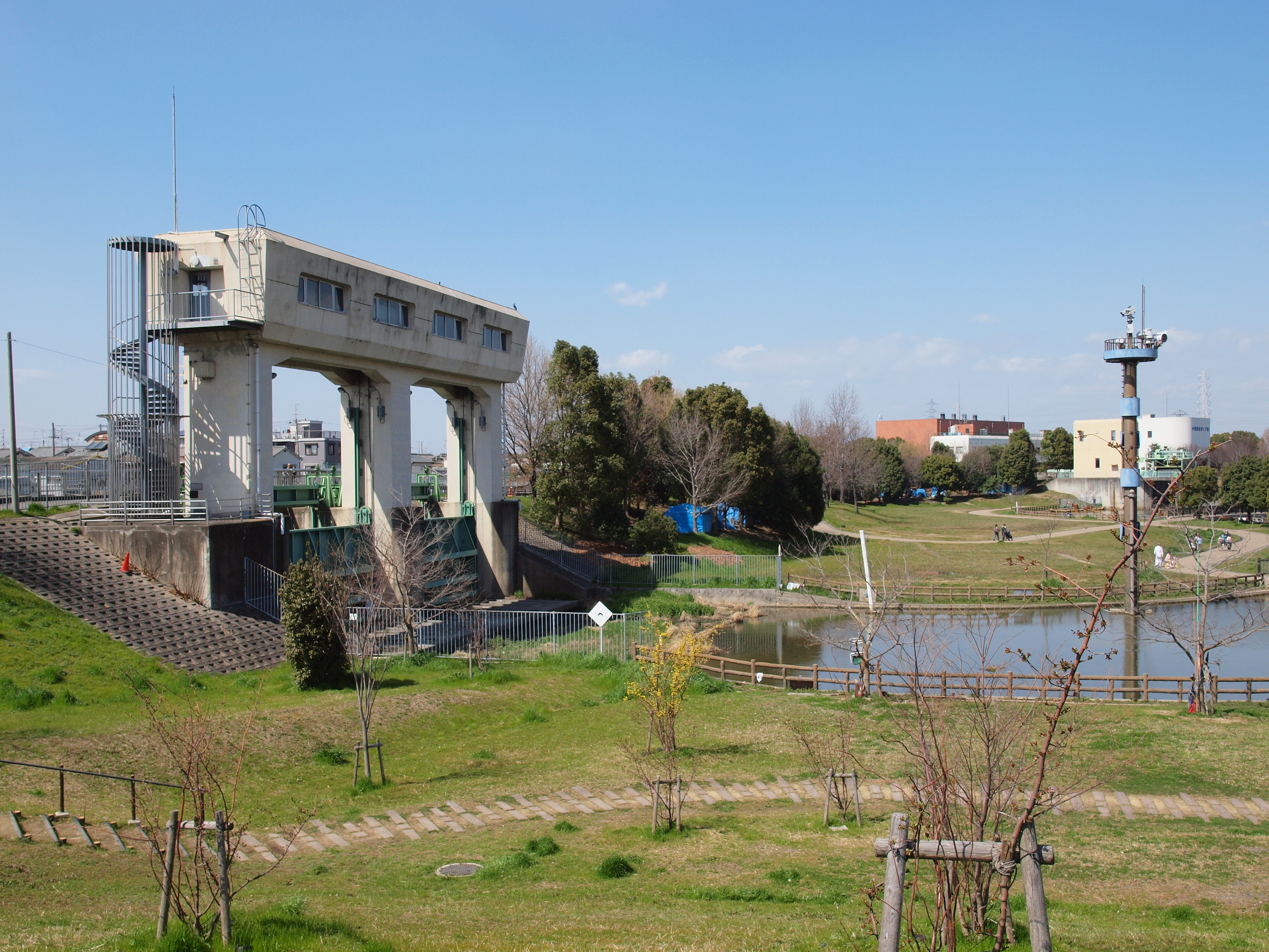 Osaka Prefectural Fukakita Ryokuchi Park